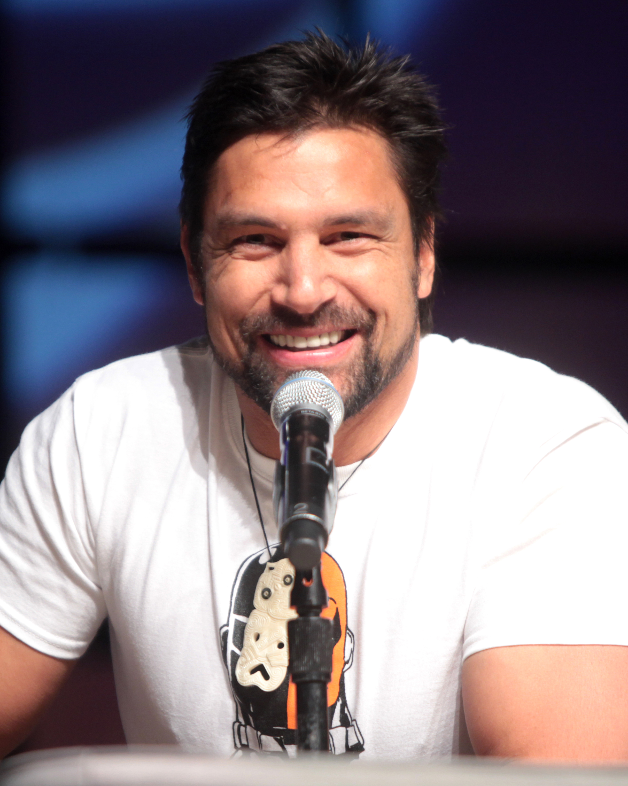 Manu Bennett speaking at the 2014 Phoenix Comicon on June 6, 2014.